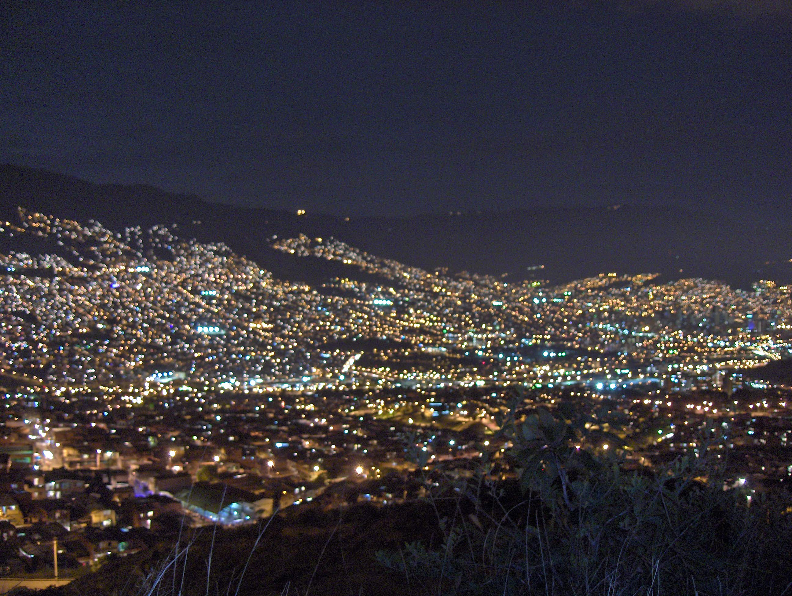 Picture captured by yussef90 in August, 2005.